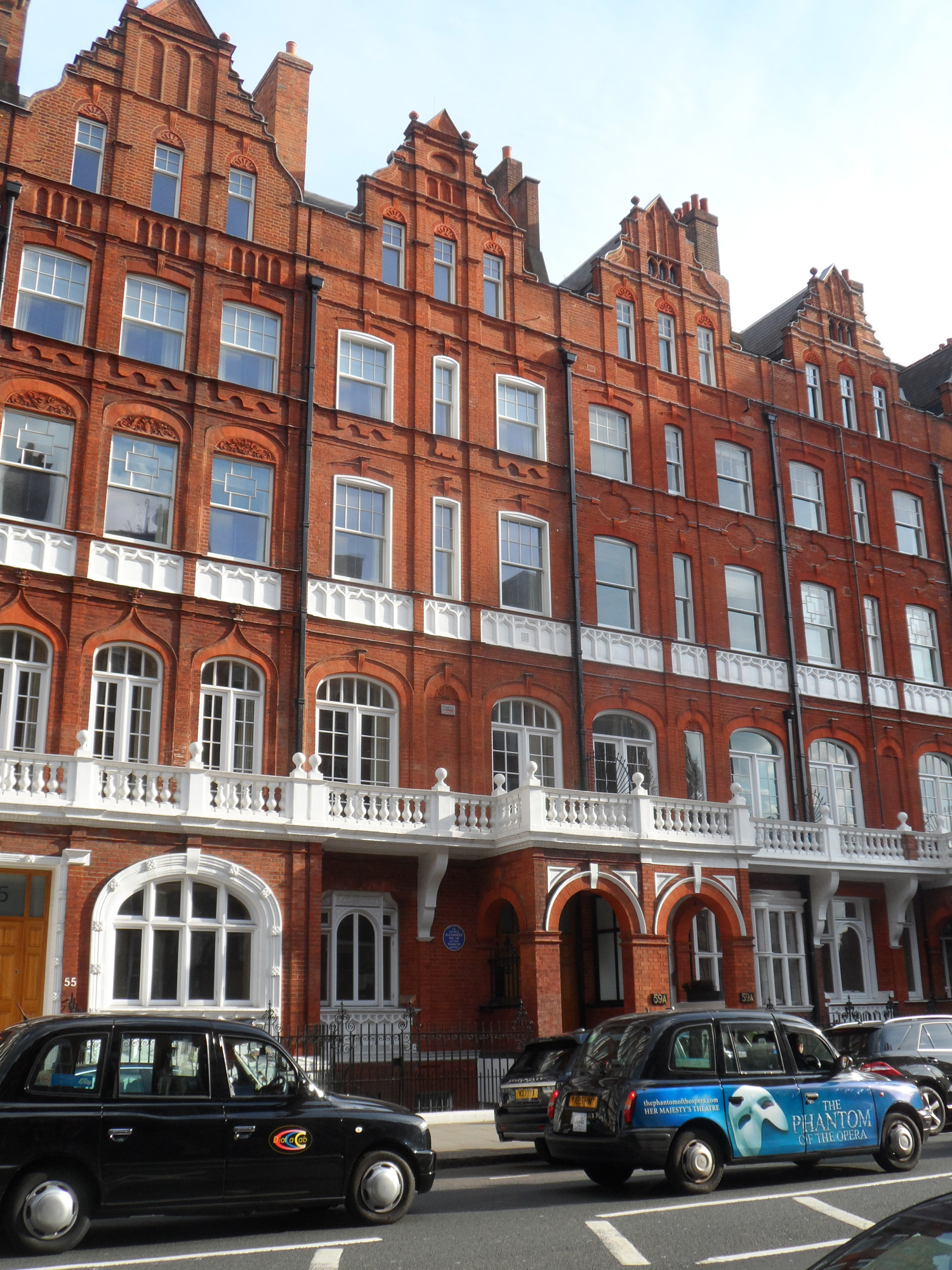 SIR GEORGE ALEXANDER 1858-1918 ACTOR MANAGER lived here